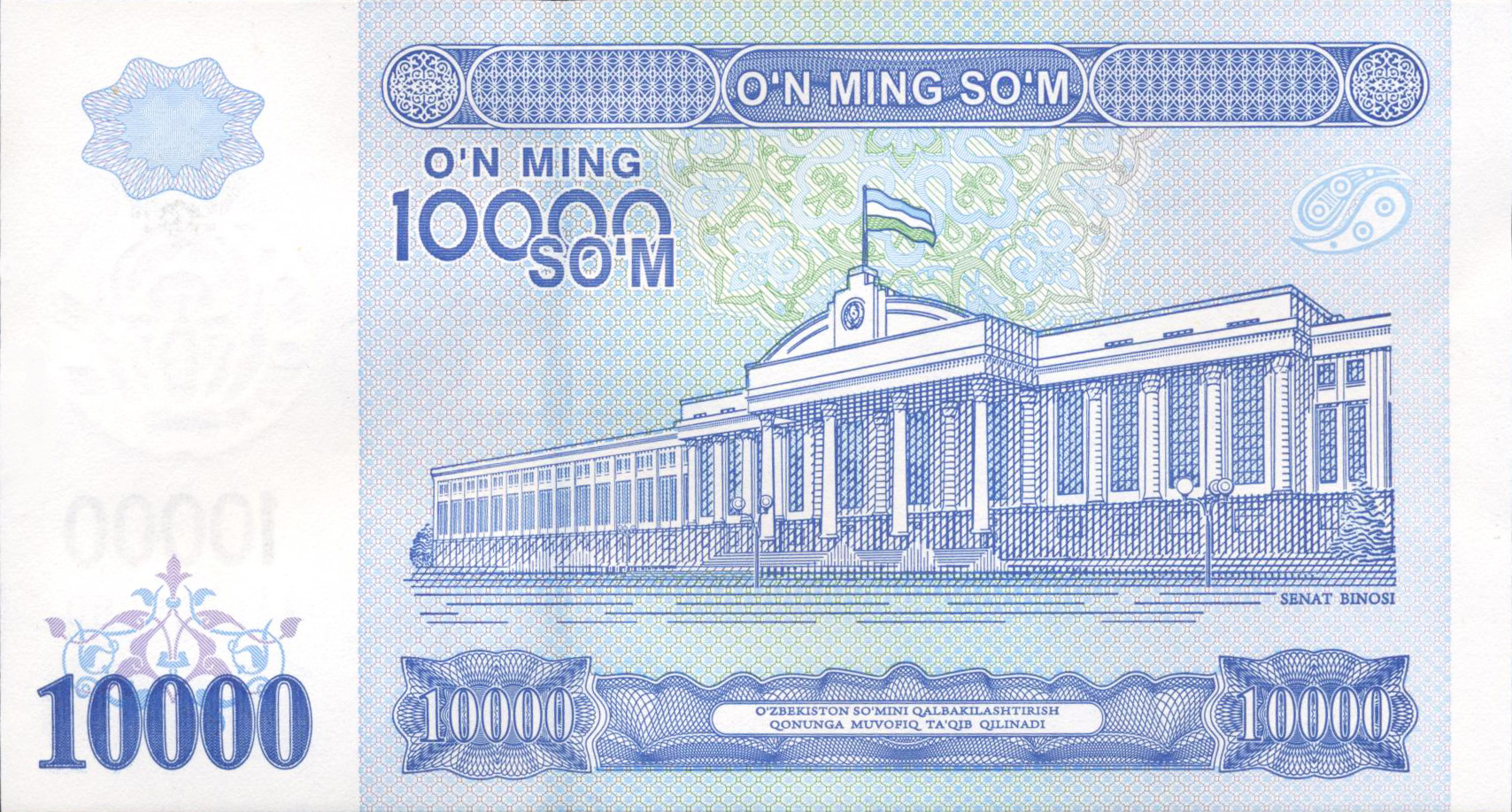 10000 soms of Uzbekistan (2017)